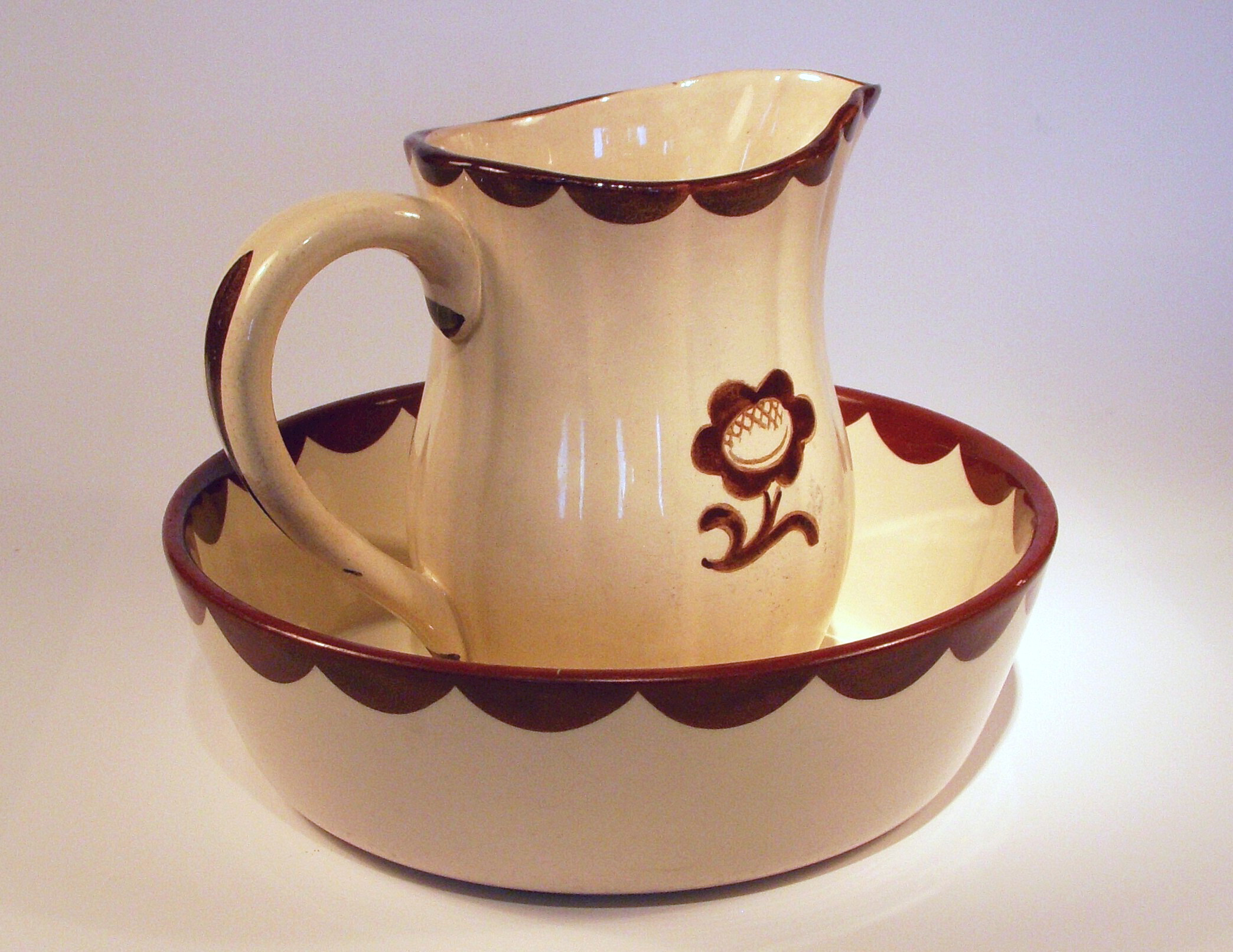 Washstand set, two pieces